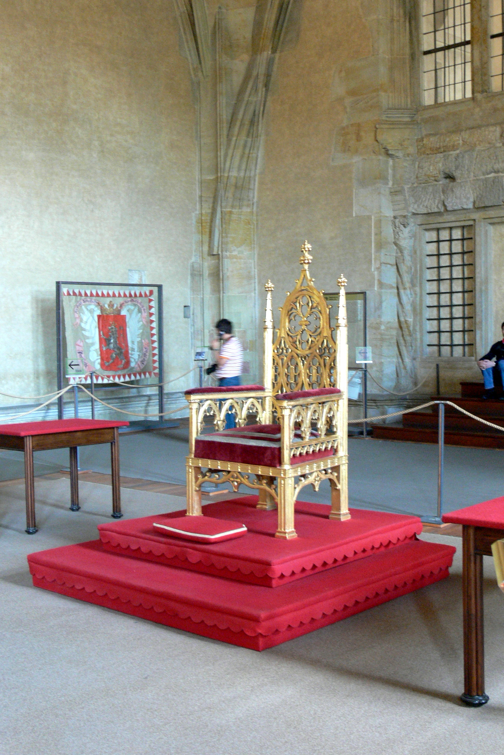 Vladislav Hall ( Old Royal Palace, Prague castle ). Royal throne.